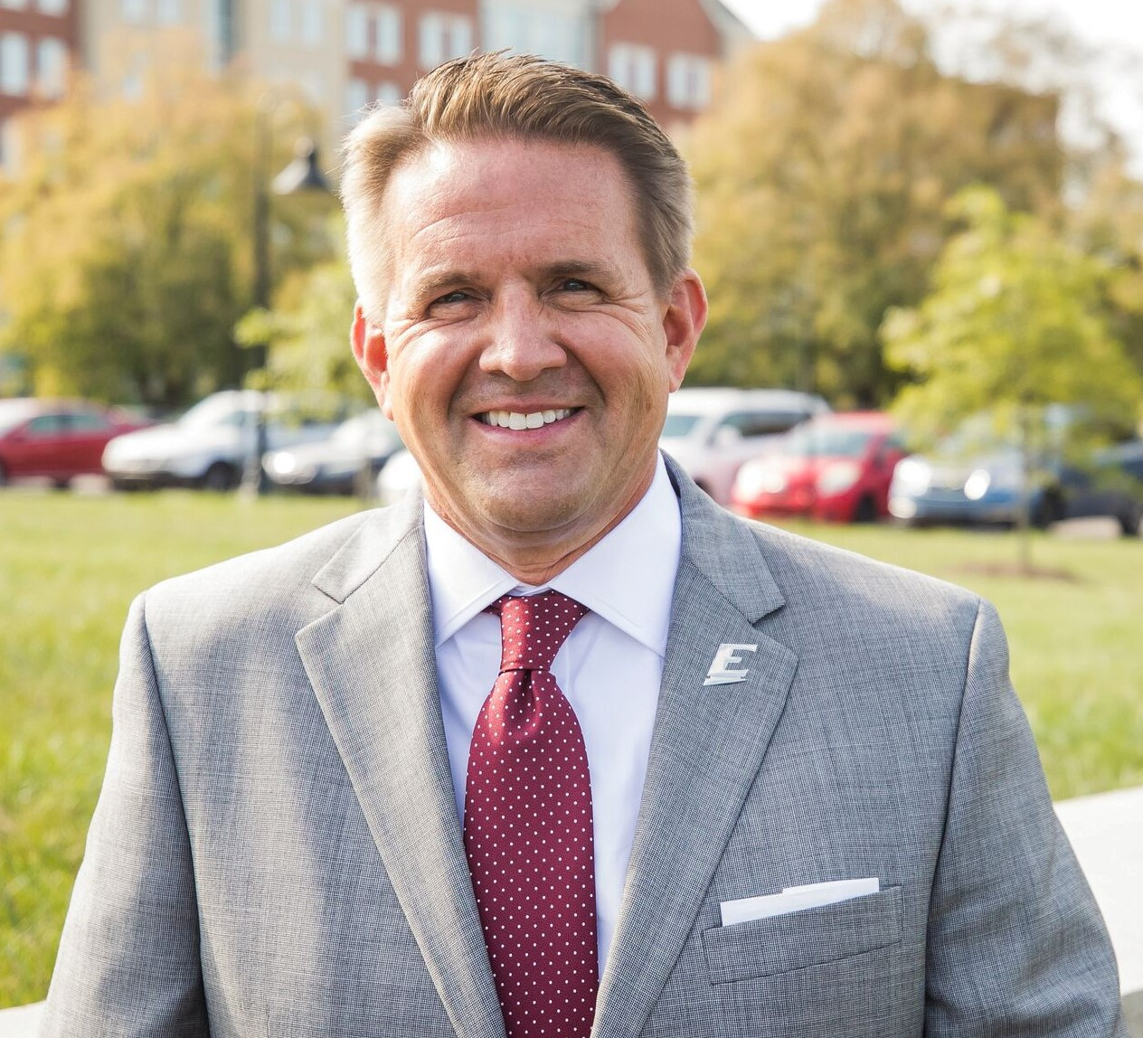 Dr. Michael T. Benson